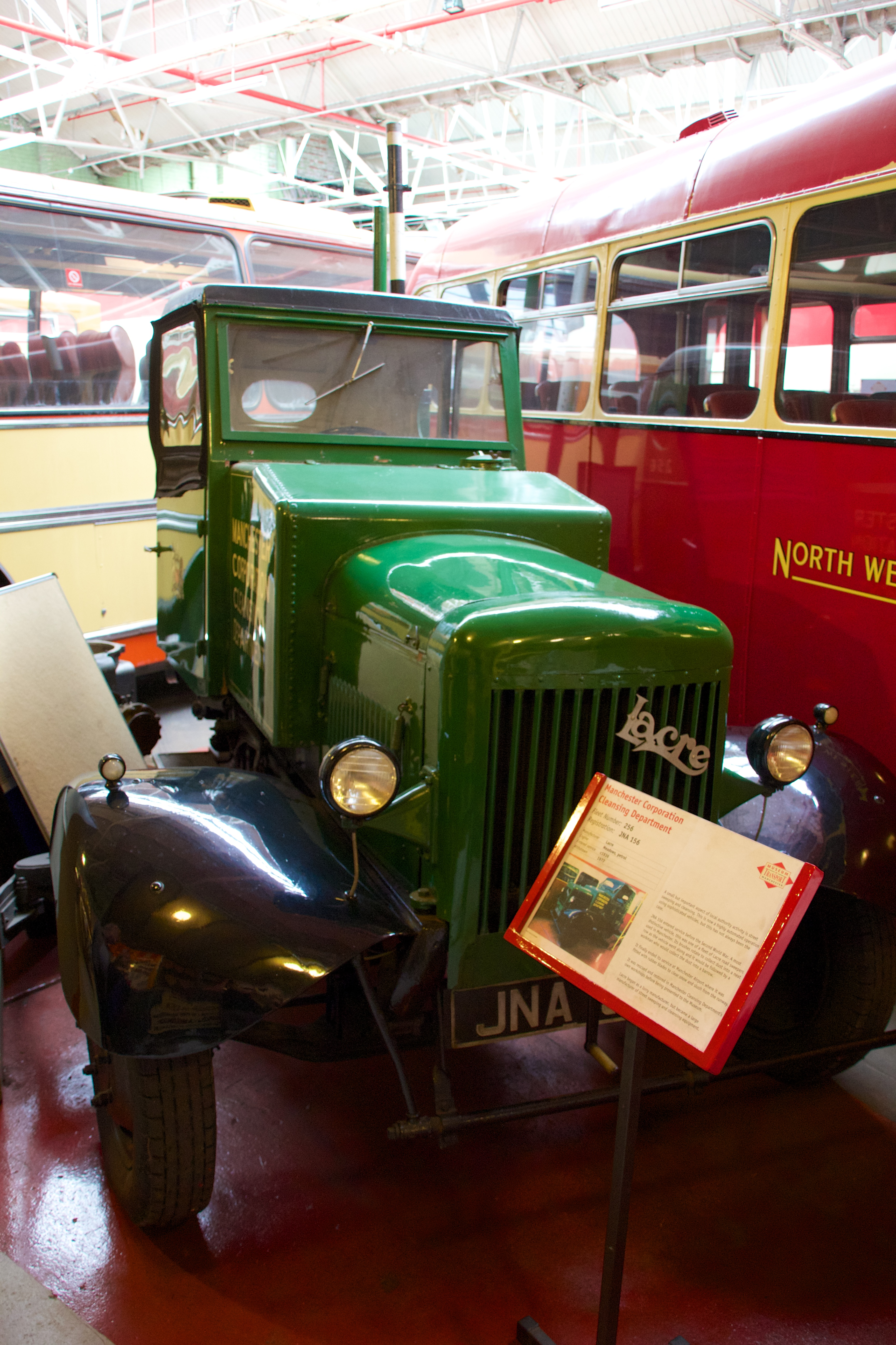 Manchester Corporation Cleansing Department. Fleet number: 256. Registration: JVA 156. Manufacturer: Lacre. Engine: Meadows, petrol. Entered service: c1936. Withdrawn: 1977. At the Museum of Transport, Greater Manchester.